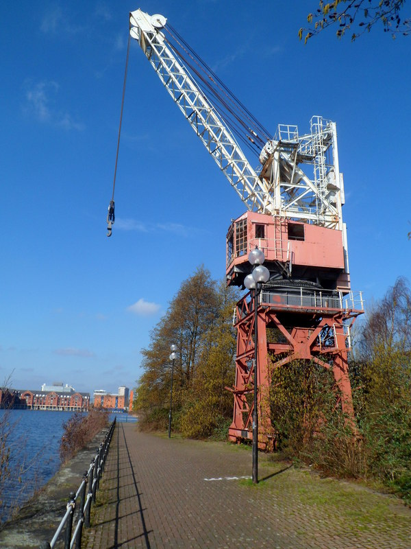 Atlantic Wharf crane, Cardiff. The quayside crane was donated to South Glamorgan County Council by Associated British Ports in 1986. The 15 ton capacity electric crane (No 5) was built by Stothert & Pitt Ltd in 1933 for the Great Western Railway. It was erected in the commercial dry dock adjacent to the Roath Basin. Originally used for ship repair work, the crane was moved to the north side of Queen Alexandra Dock in 1970. Here it was used as a heavy lifting appliance for a variety of general cargoes. In 1981 the crane was adapted to be a grabbing crane for scrap metal cargoes. It was decommissioned in January 1987.